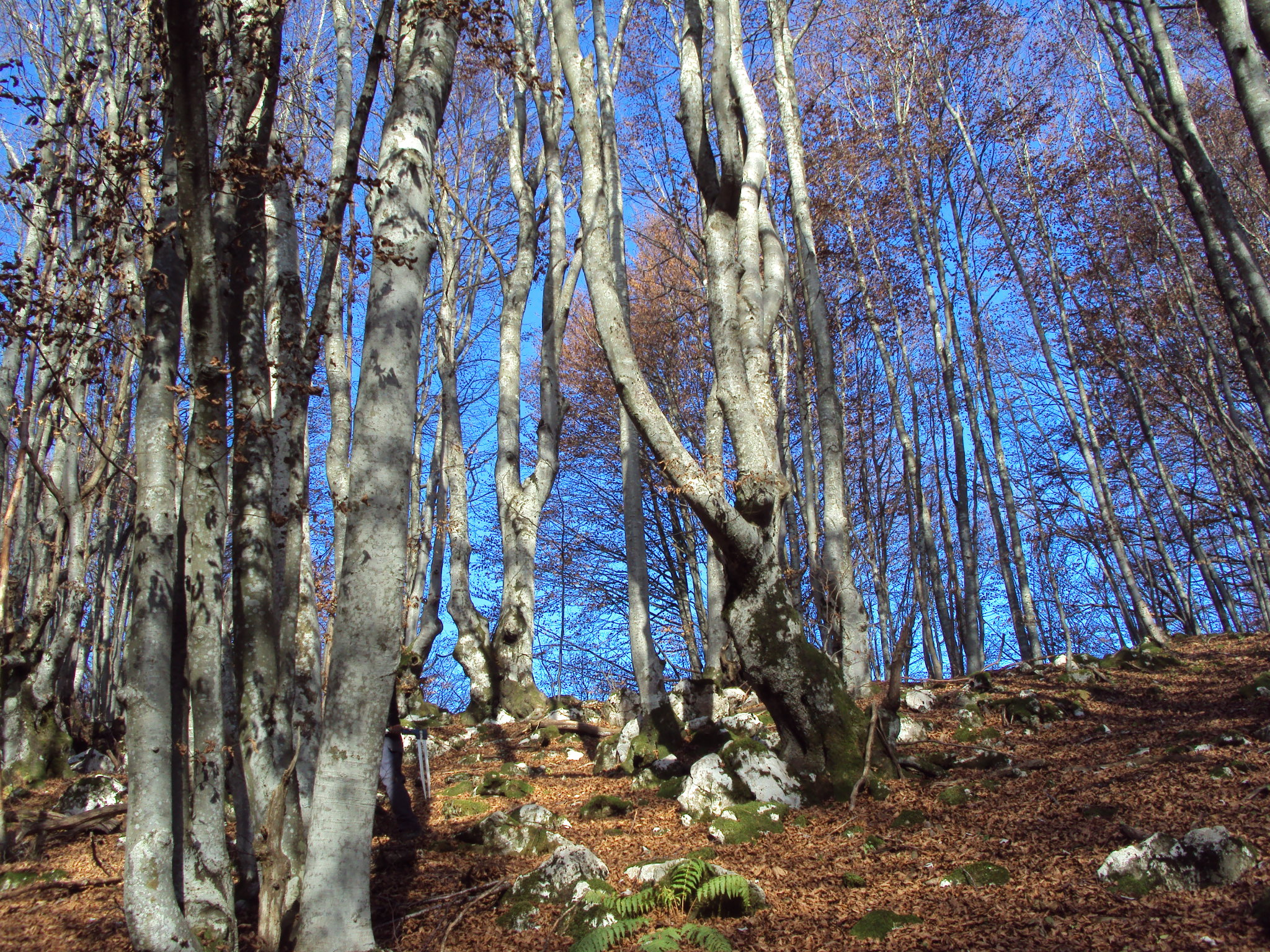 Fagus sylvatica, Lika-Senj County, Croatia